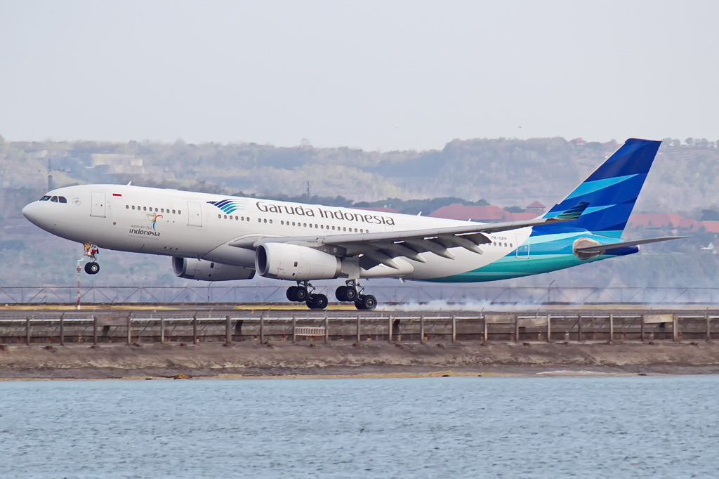 Smokey touchdown on runway 09 and completed the short hop from Jakarta CGK to Bali DPS as GA410. Airbus A330-243 Garuda Indonesia PK-GPP